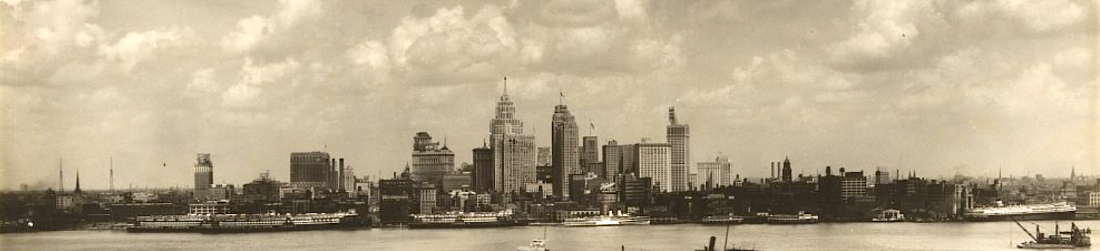 Detroit, Michigan, skyline ca. 1929